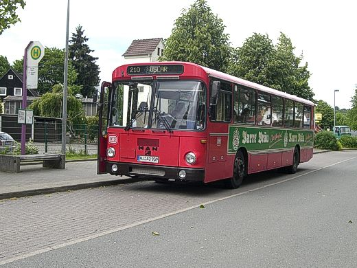 MAN SÜ 240 city bus, shot at central bus station (ZOB) Uslar, Germany.